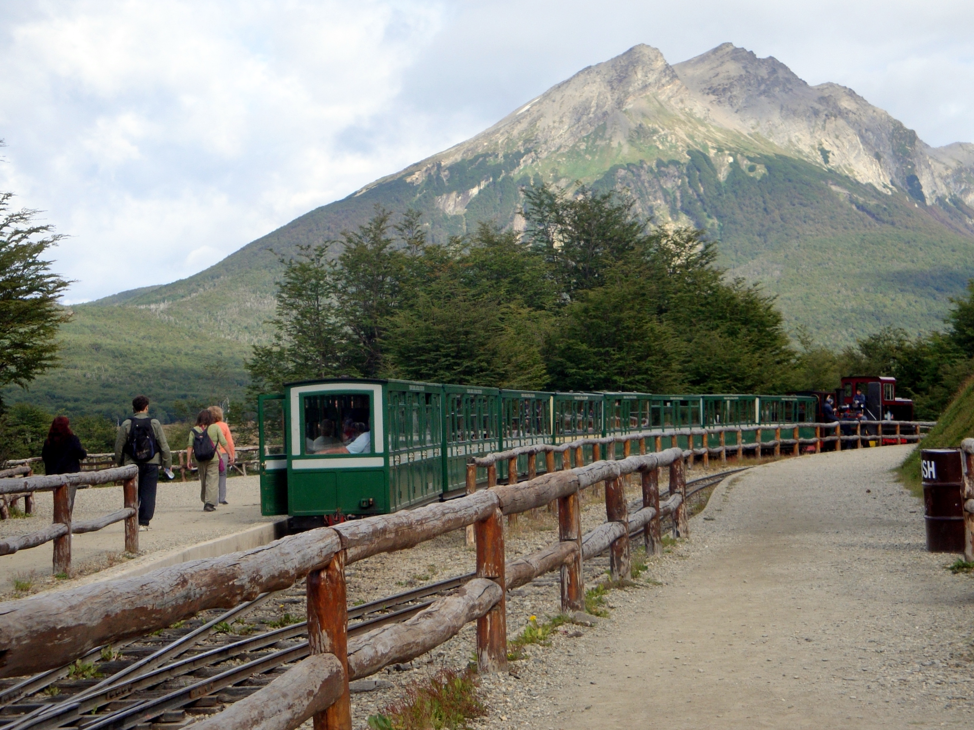 Formación del Tren del Fin del Mundo estacionada en la Estación Macarena.